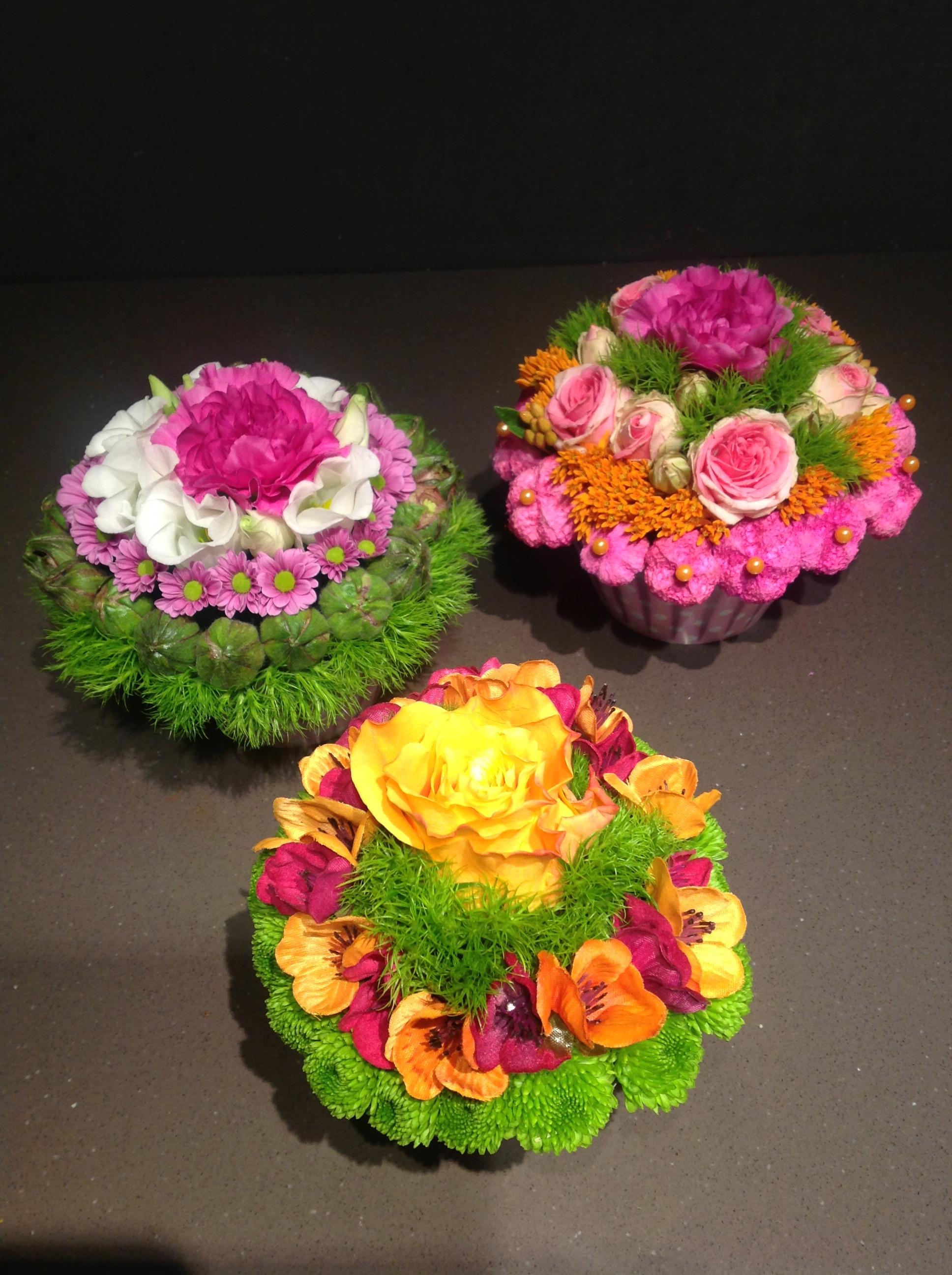 Rose color